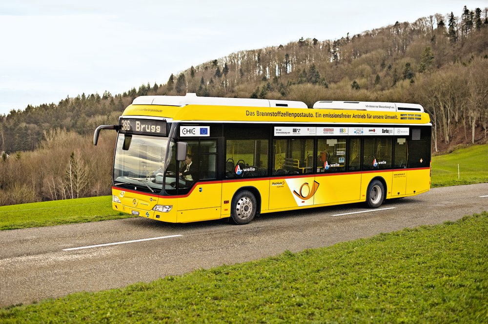 fuel cell Postbus